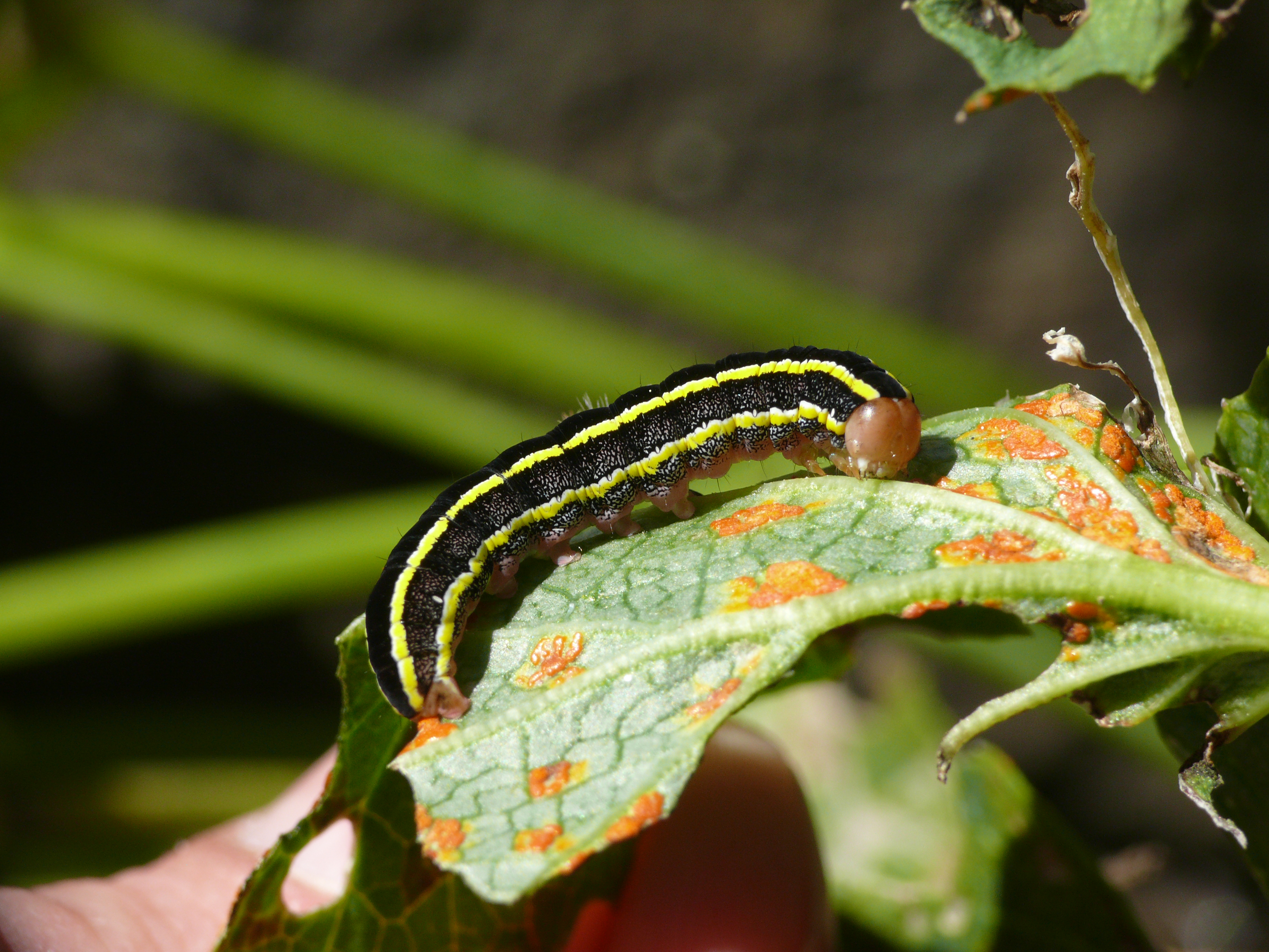 Caterpillar of Broom Moth (Ceramica pisi), Krumltal, Pinzgau, Salzburg (state), Austria, ca 1600 msm